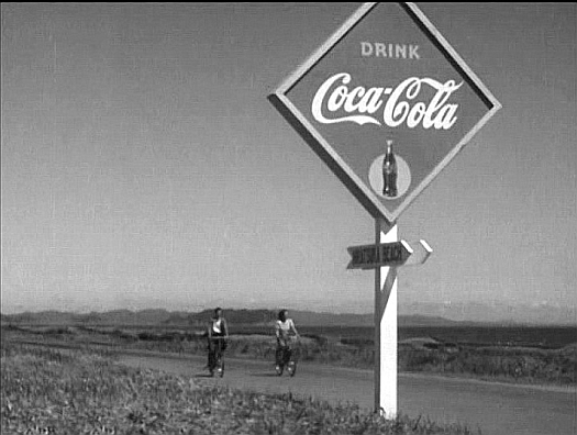 Jun Usami, Setsuko Hara (and Coca-Cola sign) in a scene from Yasujiro Ozu's Late Spring